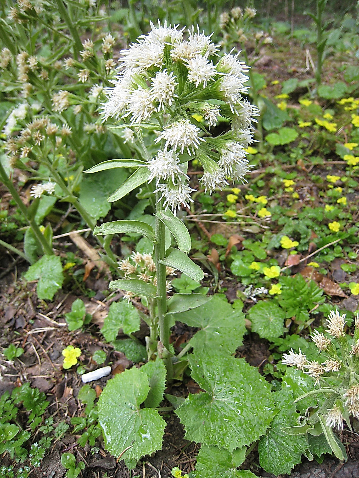 White Butterbur, Borovets, Carska Bistritsa, Bulgaria